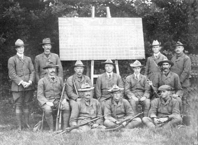 US Team (military riffle, Olympics 1908)